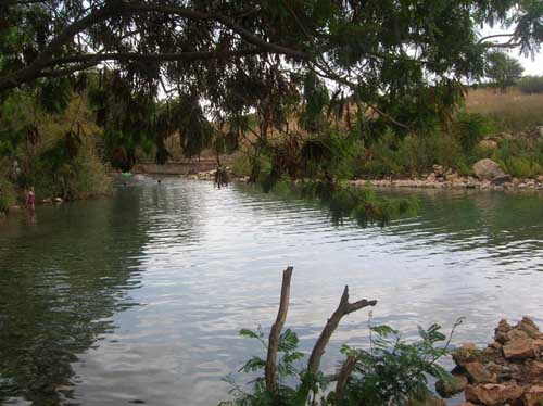 Source:[1] user eli. allowed using the image. from this fourom [2]